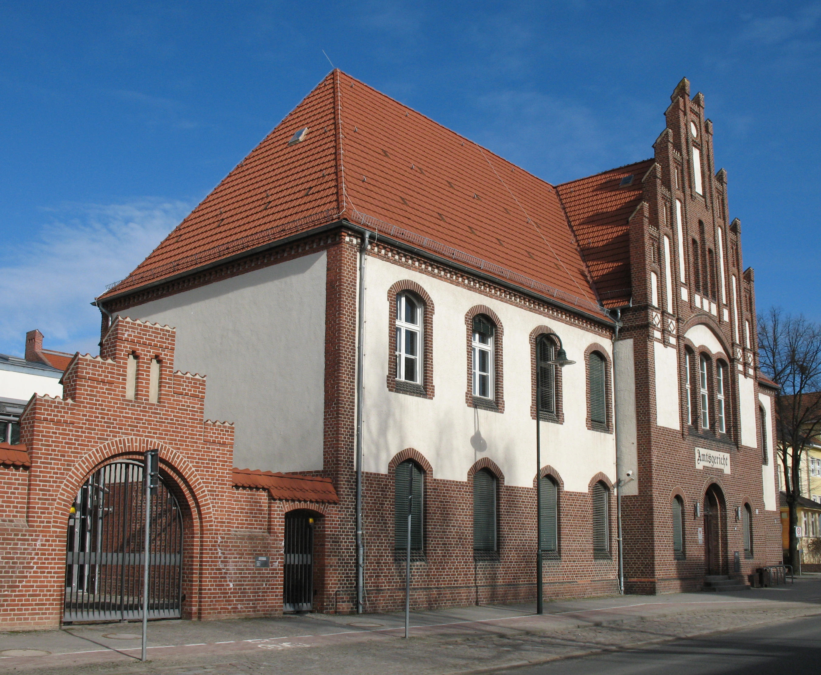 Local District Court in Bernau in Brandenburg, Germany